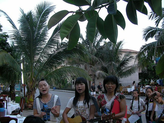 Street musicians, Xiachuan Island, Taishan, Quangdong province, China